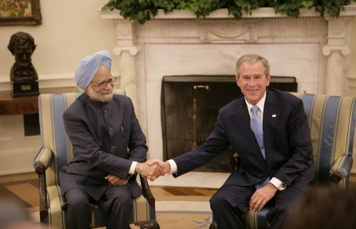 President George W. Bush (right) shakes hands with India's Prime Minister Dr. Manmohan Singh, Monday, July 18, 2005, during their meeting in the Oval Office.